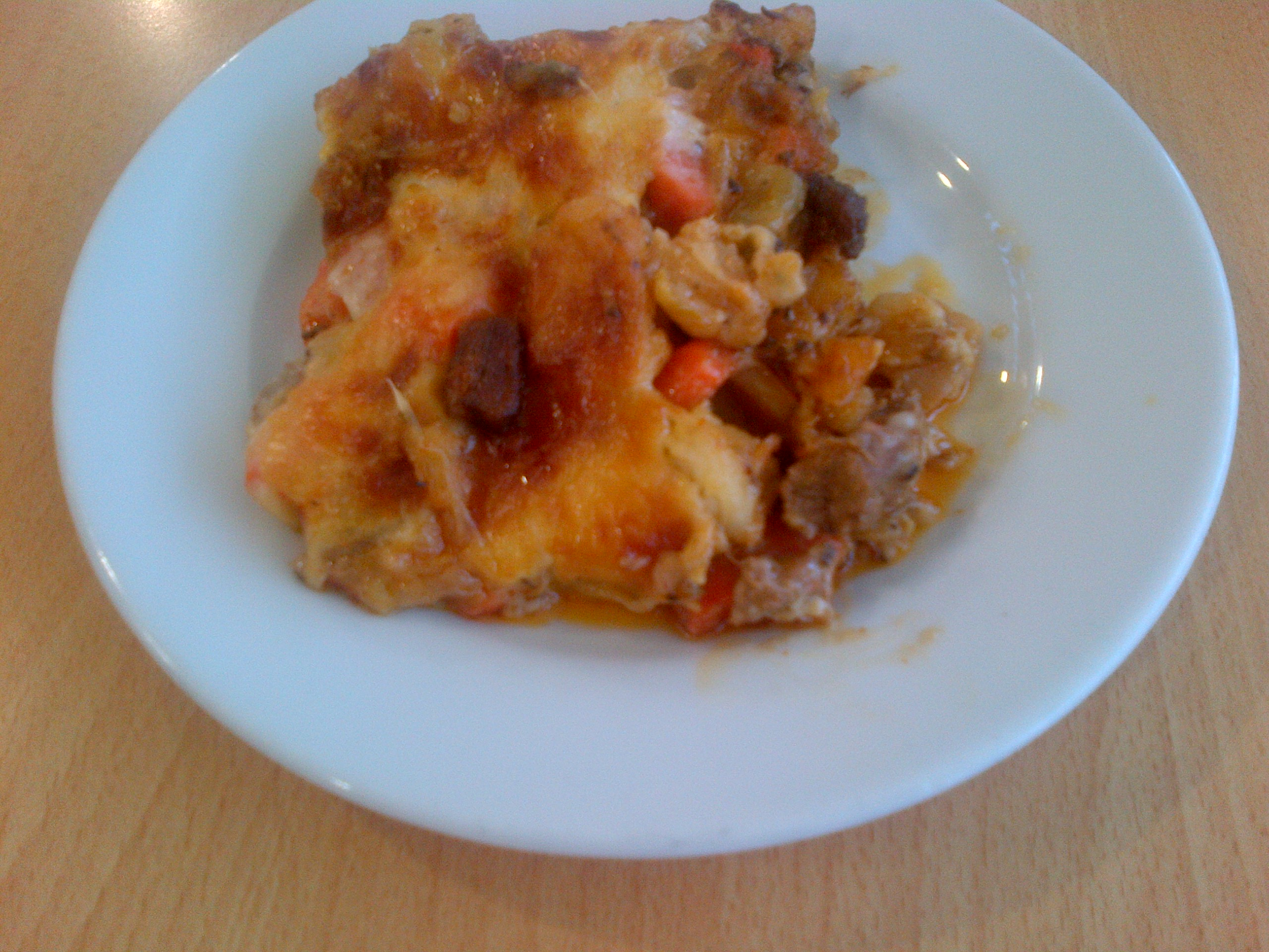 Elbasan tava, from the Turkish cuisine.